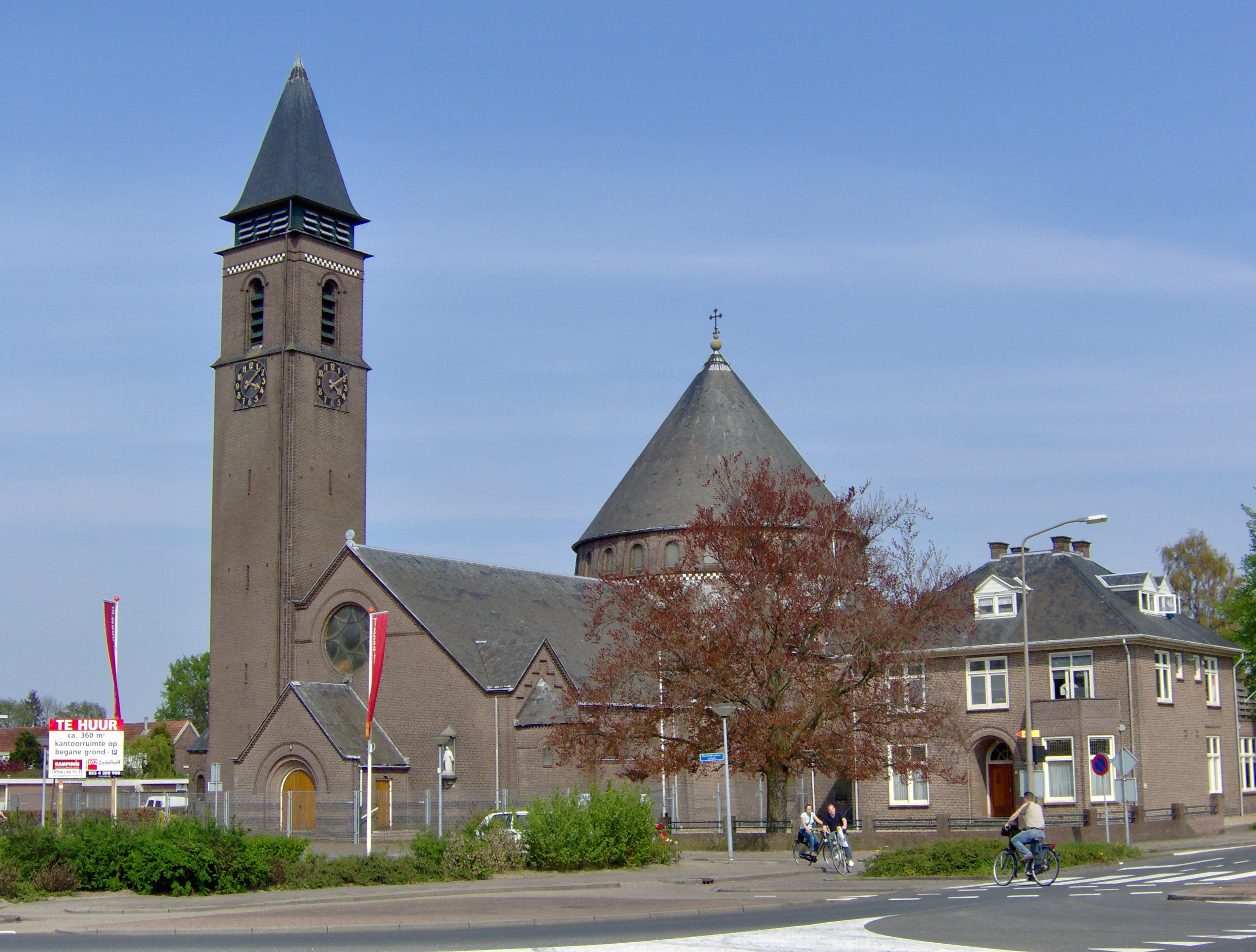 Church of St. Egbertus in Almelo, in the province of Overijssel, Netherlands